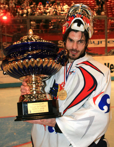 Eddy Ferhi, winner of the French Cup 2008 with Grenoble.